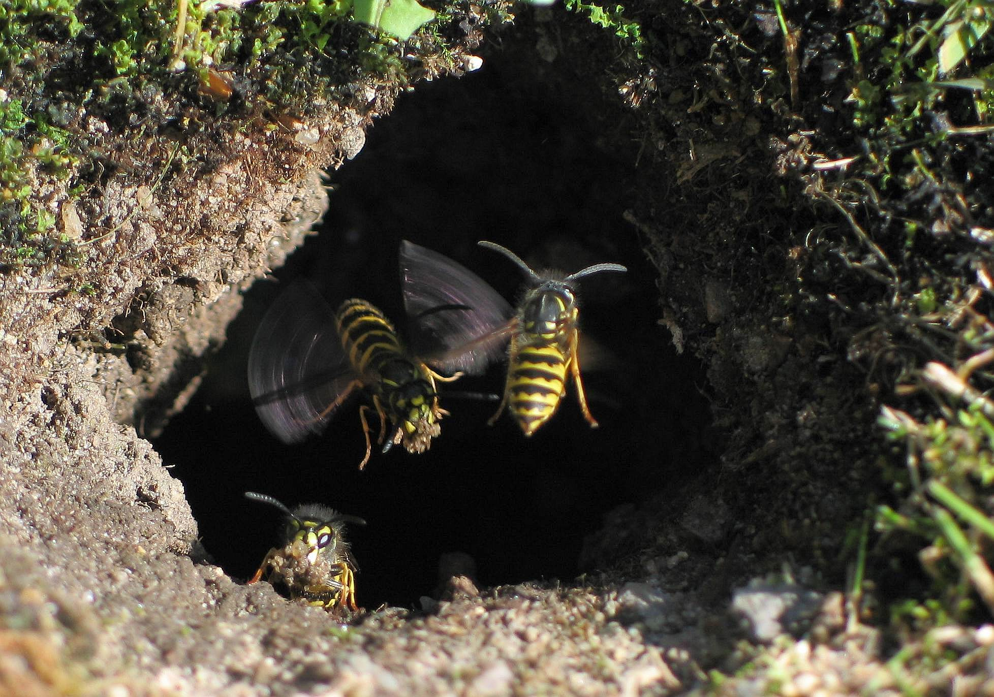 A photo of a Vespula vulgaris at nests entrance. Taken by Soebe in Northern Germany and released under GNU FDL.